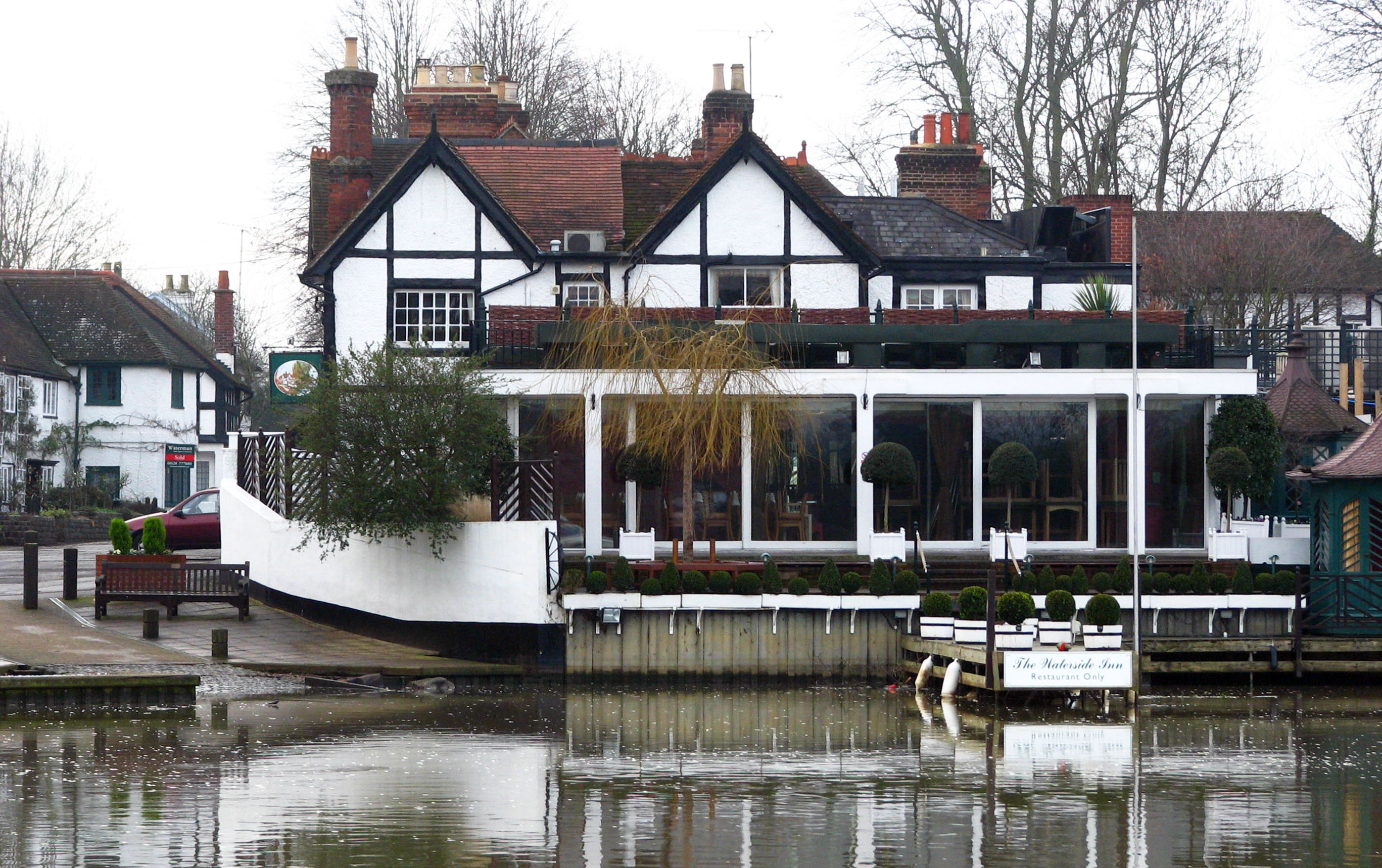 The Waterside Inn on the River Thames at Bray in Berkshire showing the patron's landing stage.